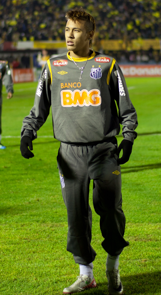 Neymar, association football player from Brazil, during Copa Libertadores final C.A. Peñarol v. Santos F.C.